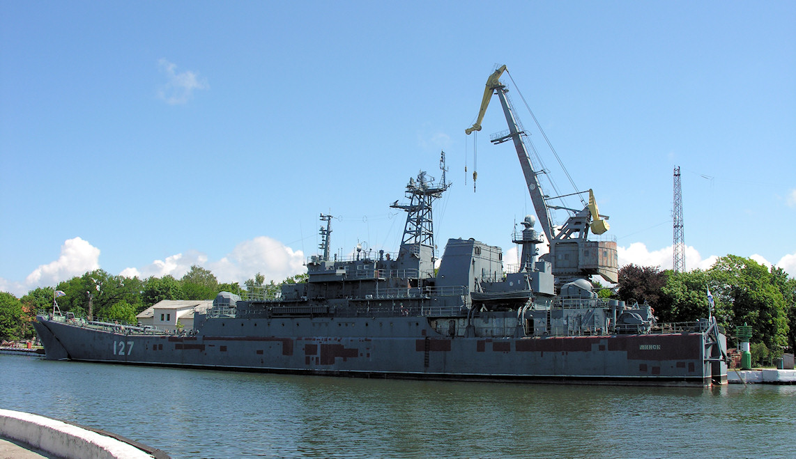 BDK-43 "Minsk" in Baltiysk, Russia.